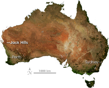 Satellite image of Australia with the location of the Jack Hills marked.